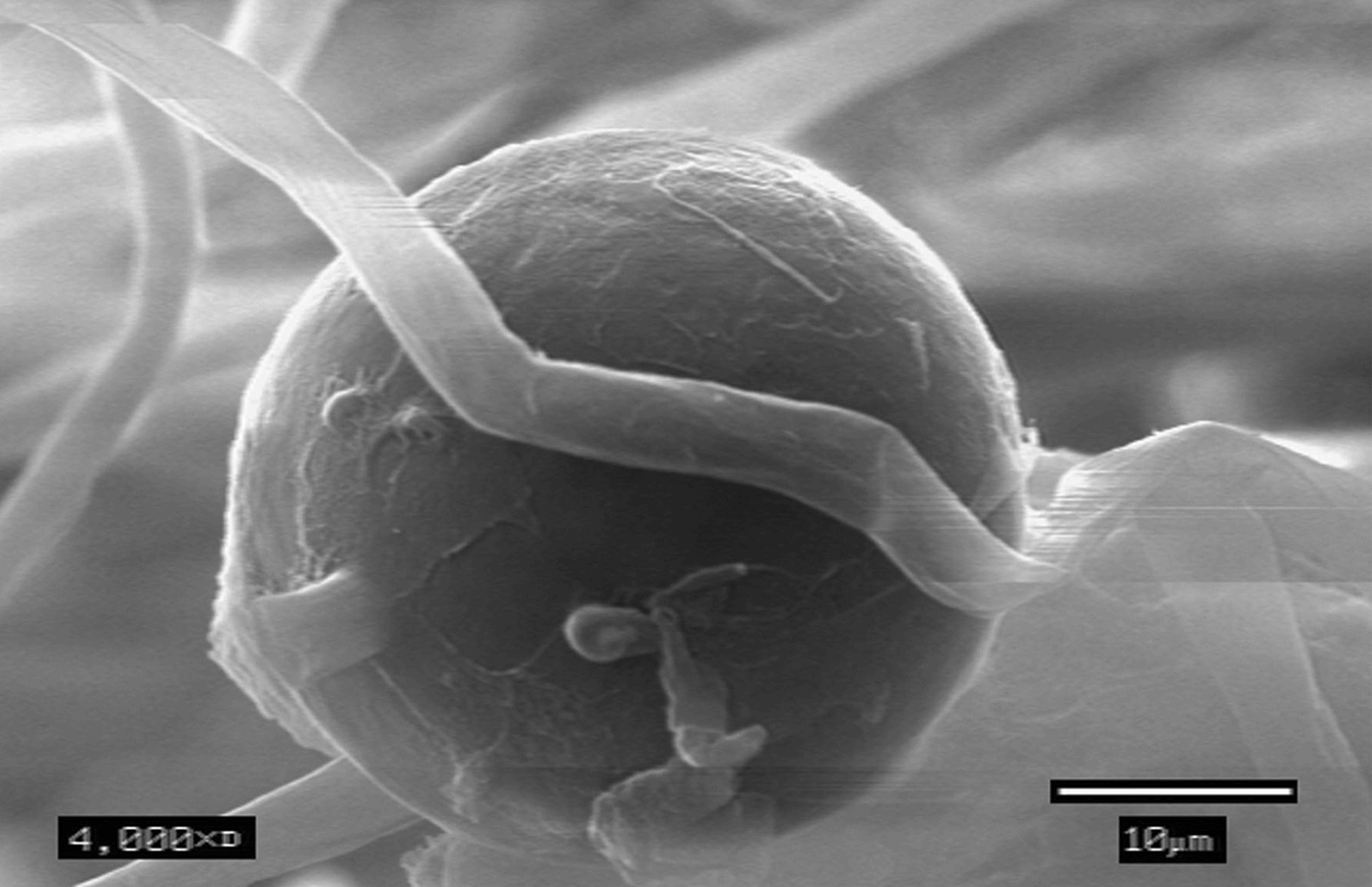 Reproductive Structure of the Phytophthora. The asexual chlamydospores.